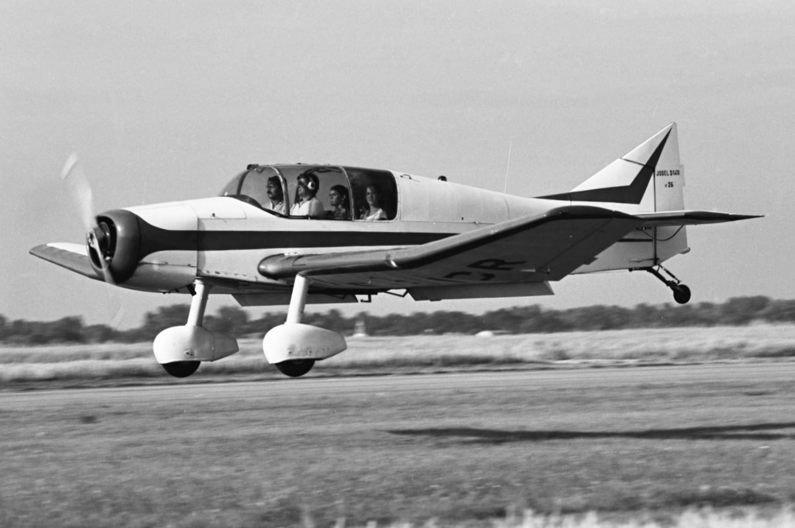 Jodel D 140 Mousquetaire no. 26, photo taken at R.S.A European rally Brienne-Le-Chateau 1984